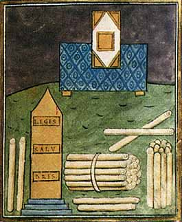 Page from the Notitia Dignitatum, displaying the insignia and items associated with the office of quaestor sacri palatii, a late Roman palace official responsible for drafting laws.